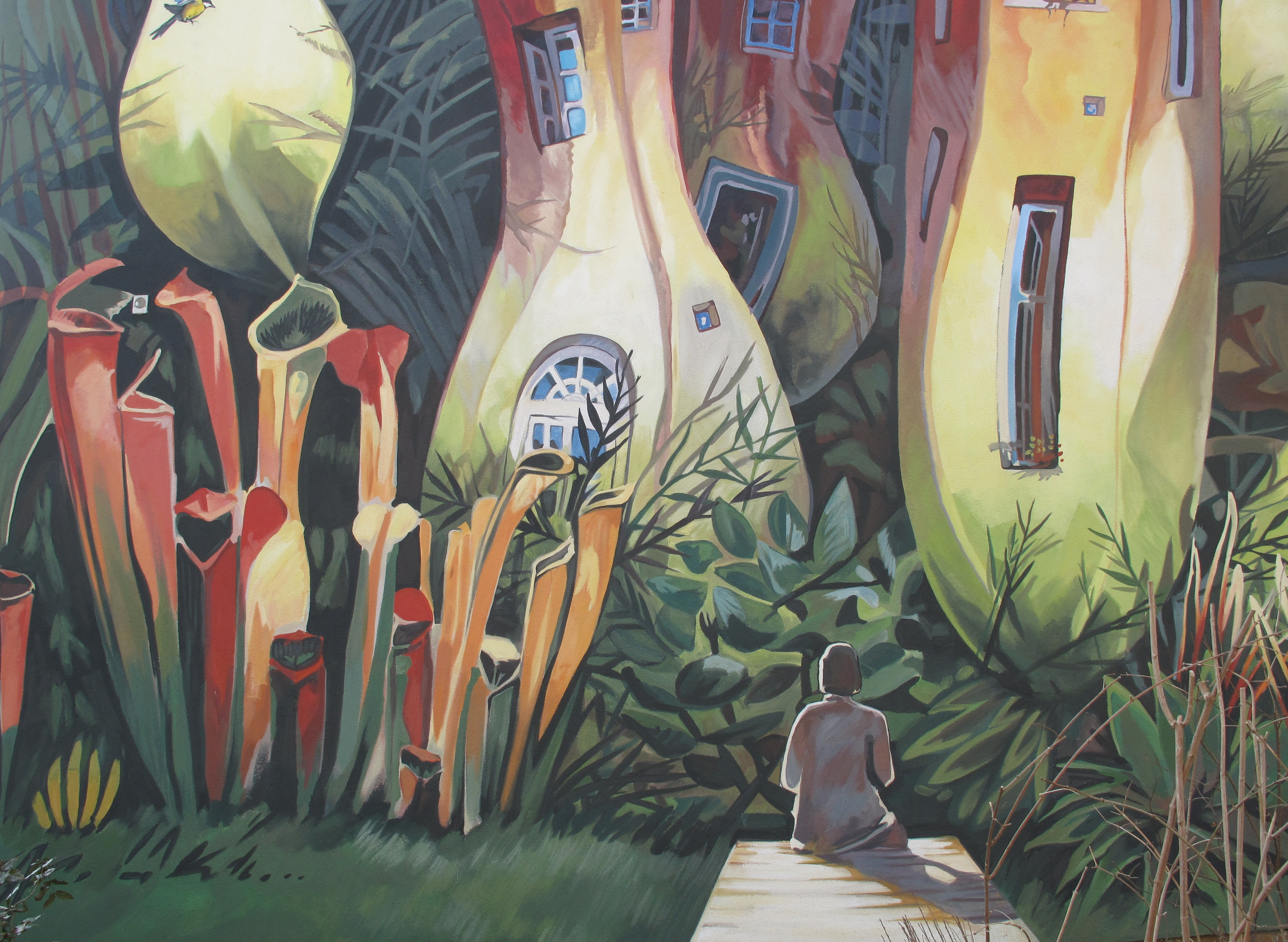 Mural in Berlin-Neukölln, created by the french artist group CitéCréation. The work in Jupiterstraße No. 15 (nearby Sonnenallee) was unveiled on 1 November 2010.